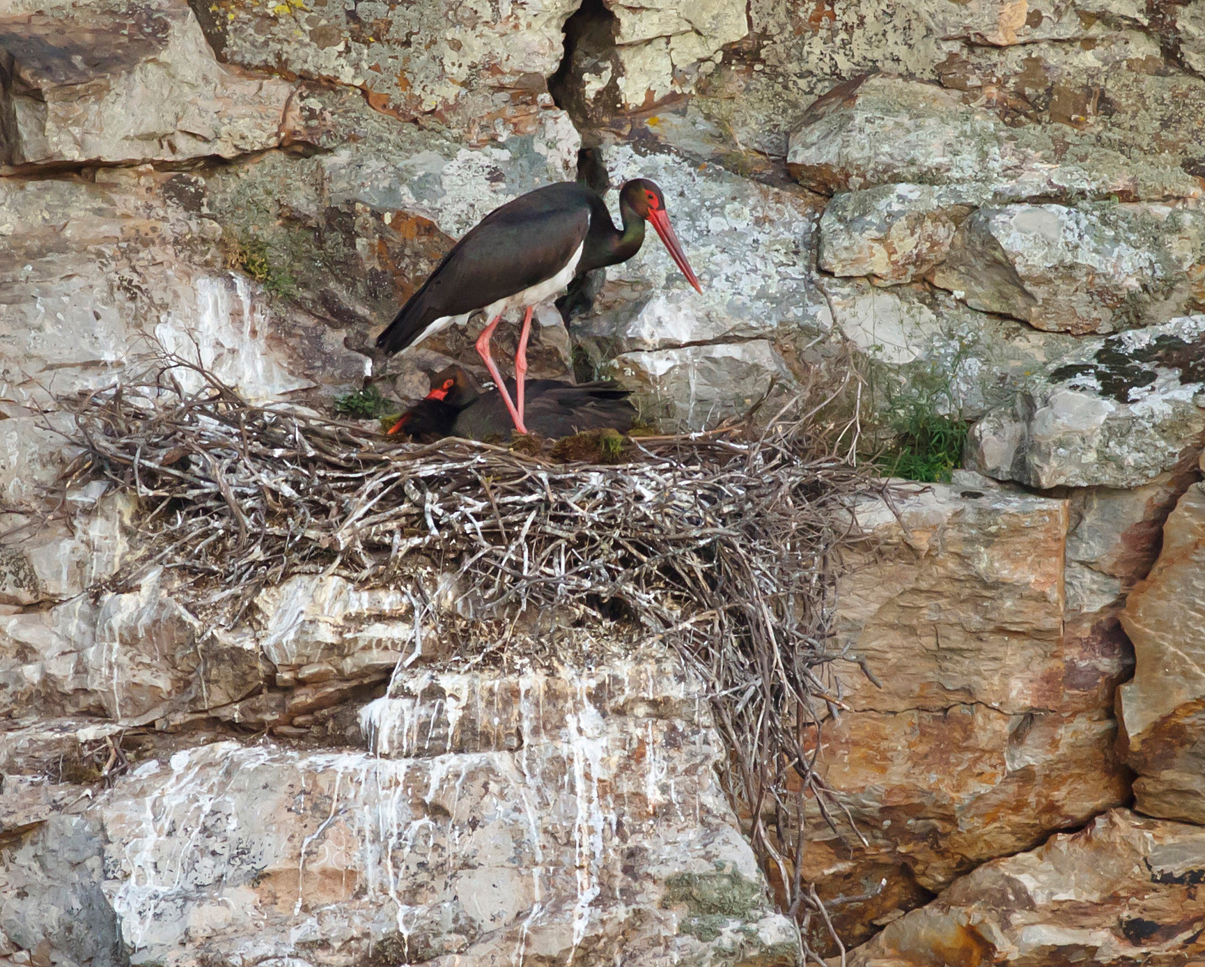 Nesting Black storks (Ciconia nigra), Monfrague NP, Extremadura, Spain